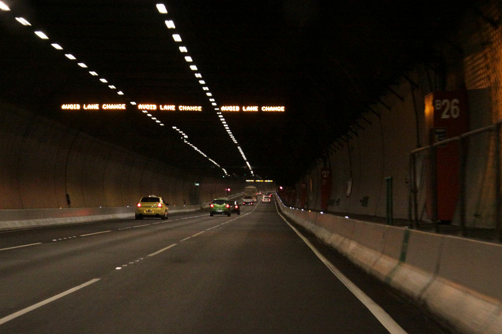 Driving through the Burnley Tunnel about midway through